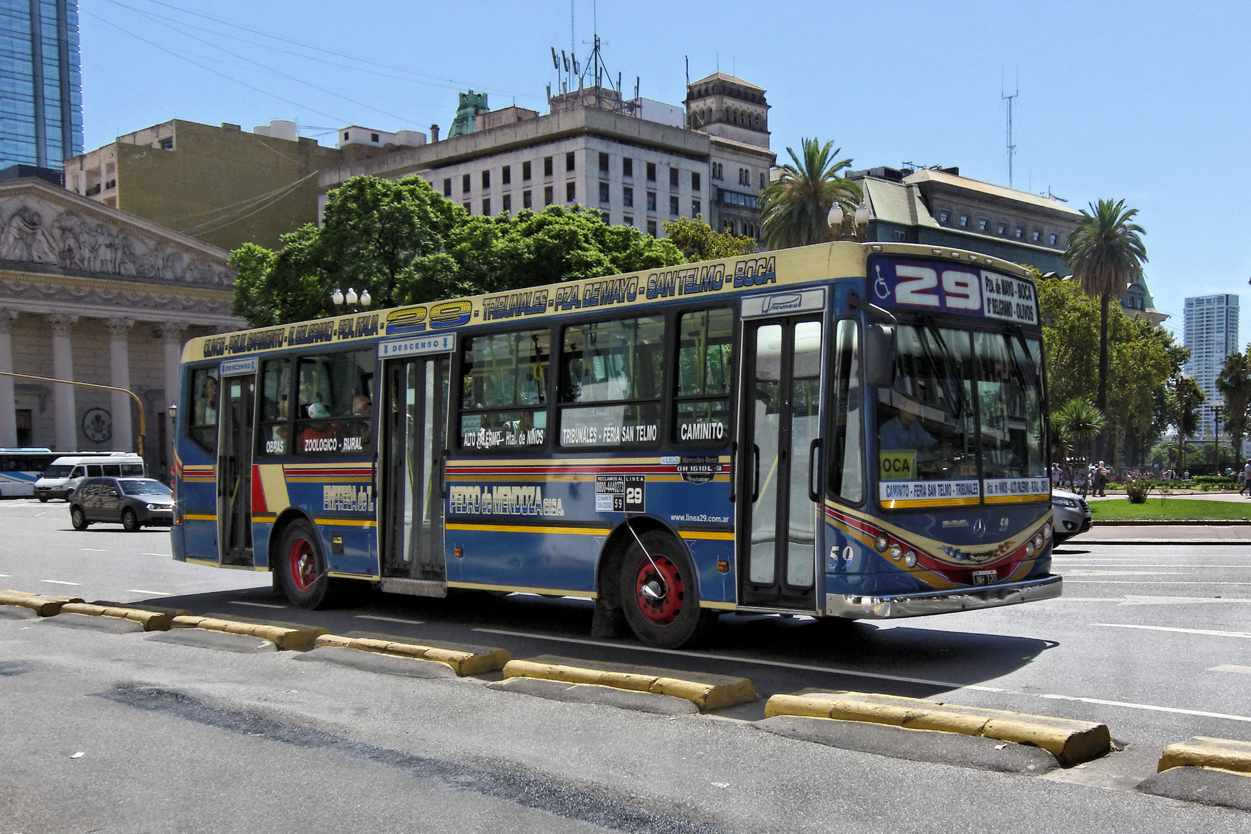 Metalpar Iguazú II bus (reg. JNH 120, #59), with Mercedes-Benz OH 1618 L-SB chassis in Buenos Aires, Argentina. Colectivo, line 29, Empresa de Transportes Pedro de Mendoza C.I.S.A. operator.